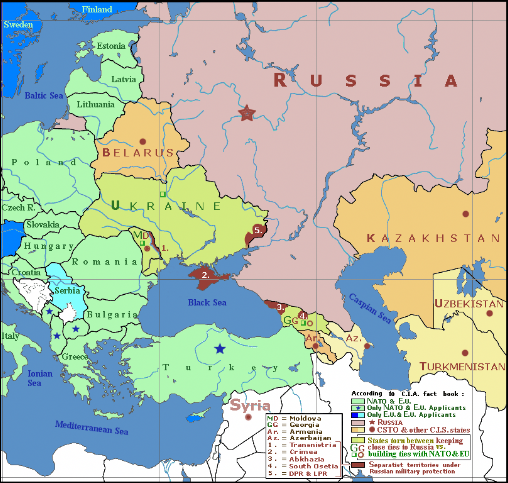 Geopolitcs of South Russia, according with the CIA facts books, (without arrows and red star)